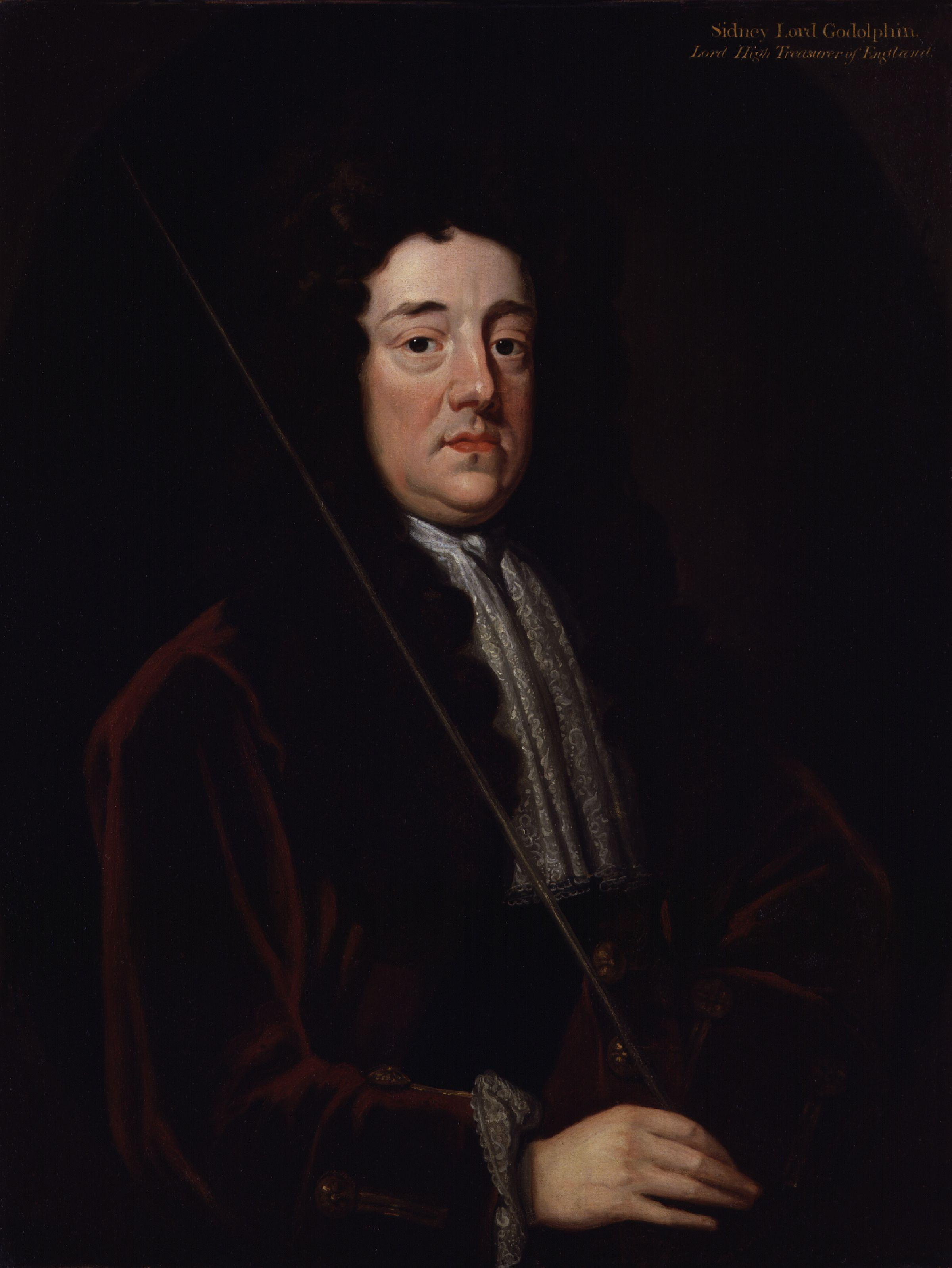 Sidney Godolphin, 1st Earl of Godolphin, by Sir Godfrey Kneller, Bt (died 1723), given to the National Portrait Gallery, London in 1917. All images in this batch have been confirmed as author died before 1939 according to the official death date listed by the NPG.